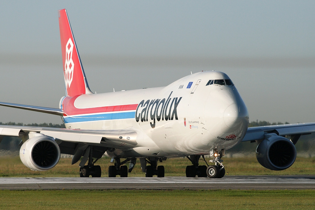 Morning depature.